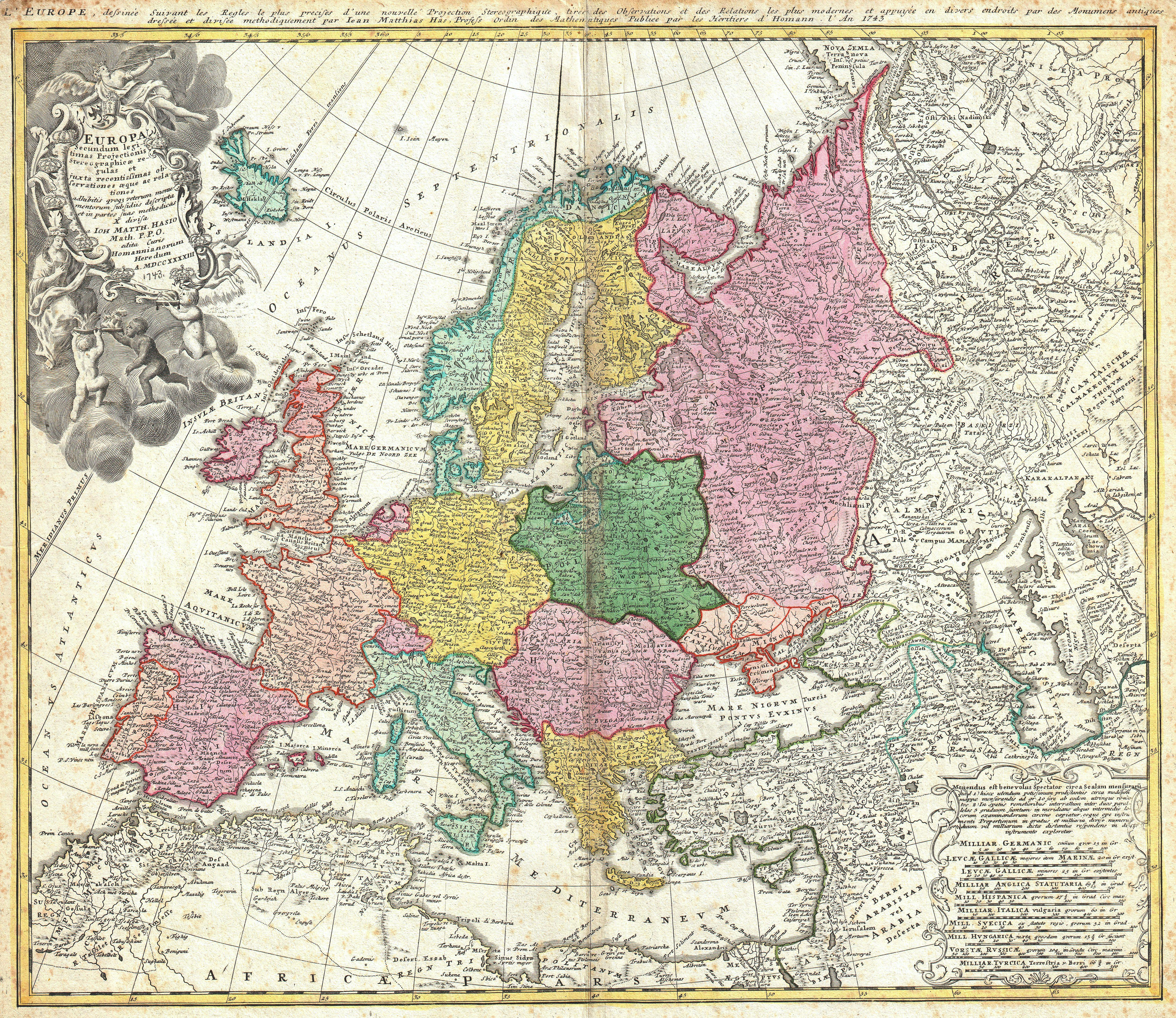 A beautifully detailed 1743 Johann Matthais Haas map of Europe. Depicts all of Europe including Iceland and parts of North Africa and Asia. Color coded according to sovereign nation. Elaborate title cartouche in the upper left quadrant features Europa, an angel, numerous crowns representing the royal houses of Europe, three children and several horses. Alternative title in French in top margin, L'Europe dessinee Suivant les Regles... This map was drawn in Nuremberg by Johann Matthais Haas for inclusion the 1752 Homann Heirs Maior Atlas Scholasticus ex Triginta Sex Generalibus et Specialibus…. .